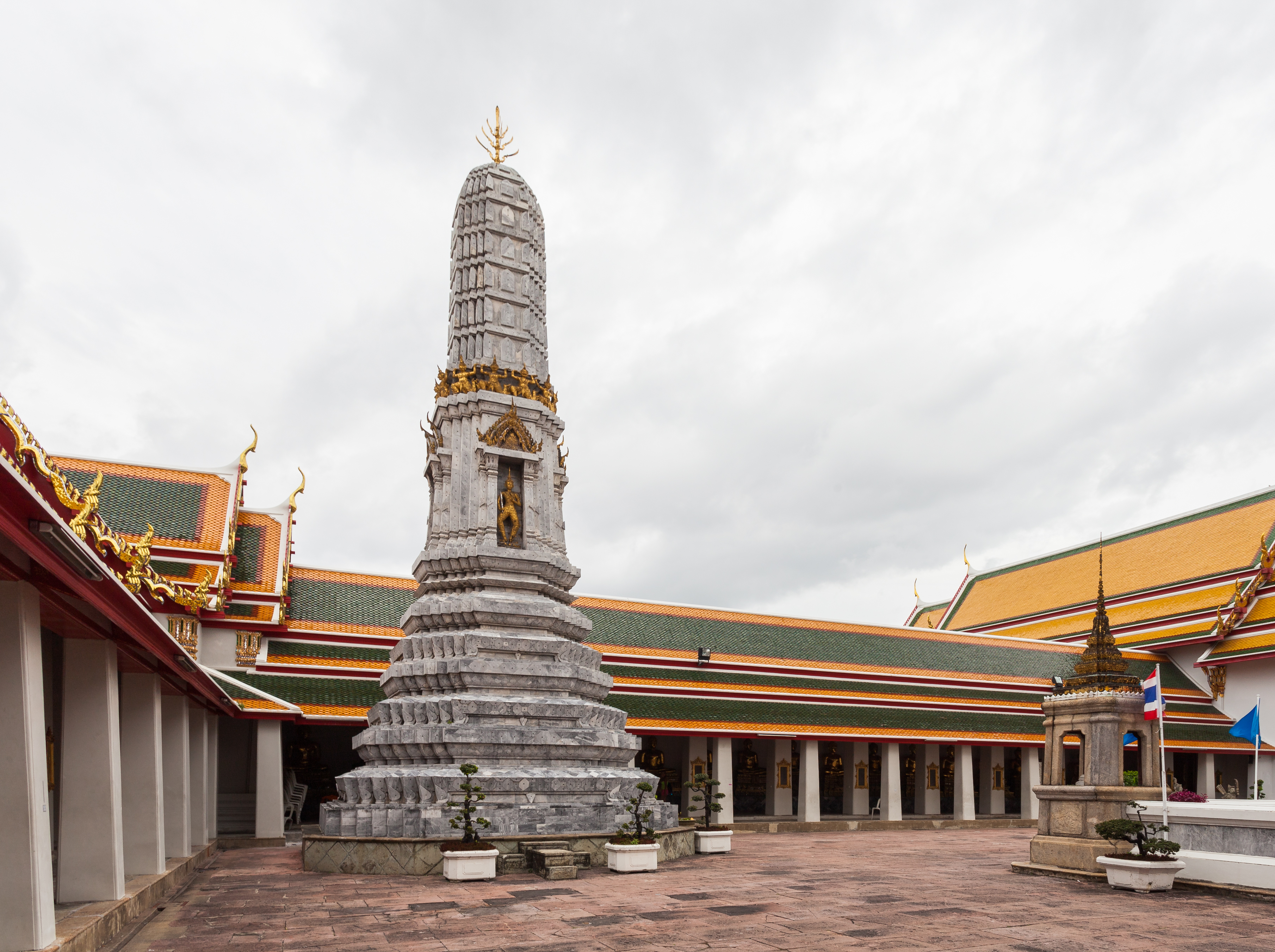 Wat Pho temple, Bangkok, Thailand